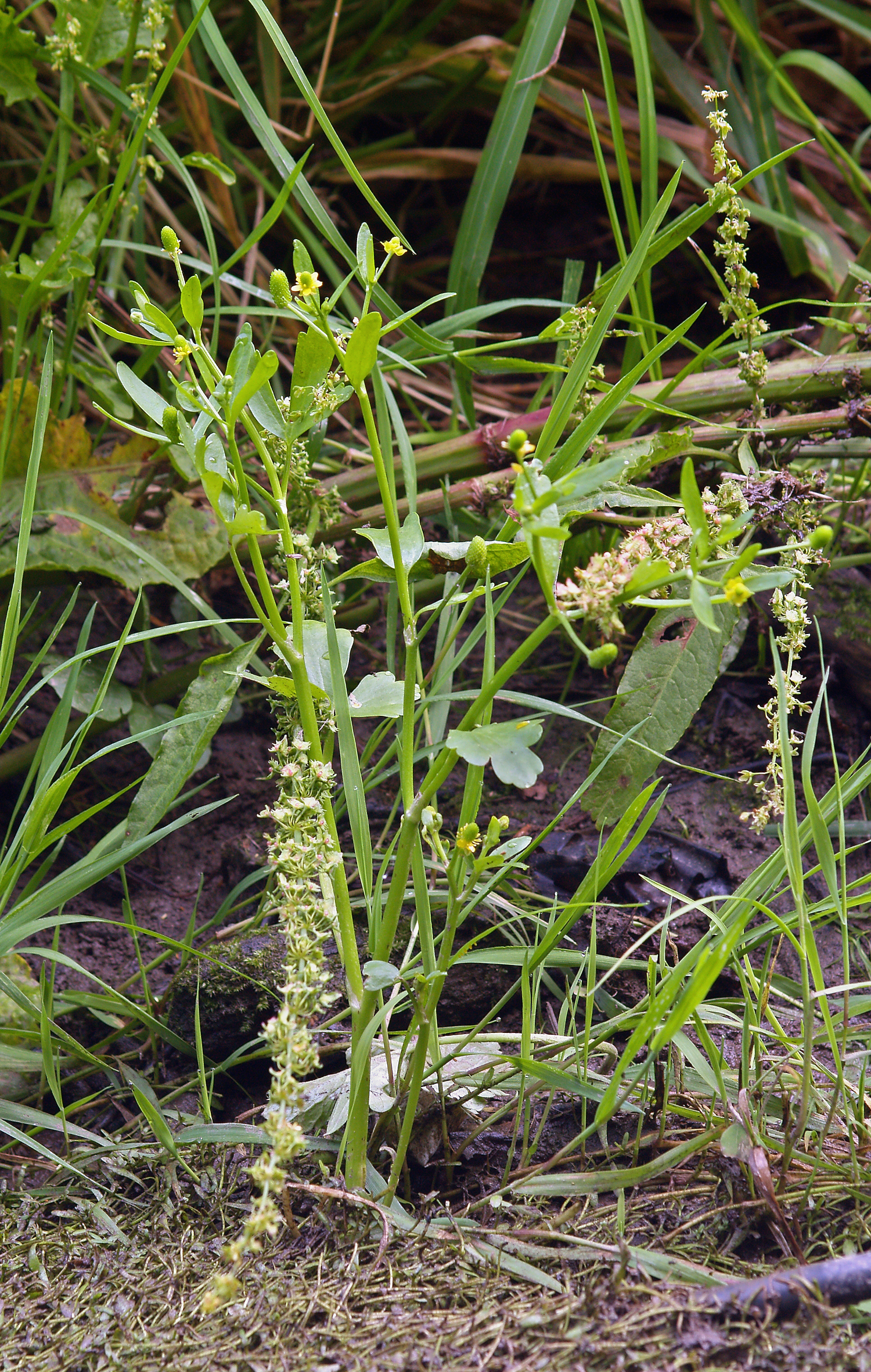 Celery-leaved buttercup (Ranunculus sceleratus), Chemnitz, Germany